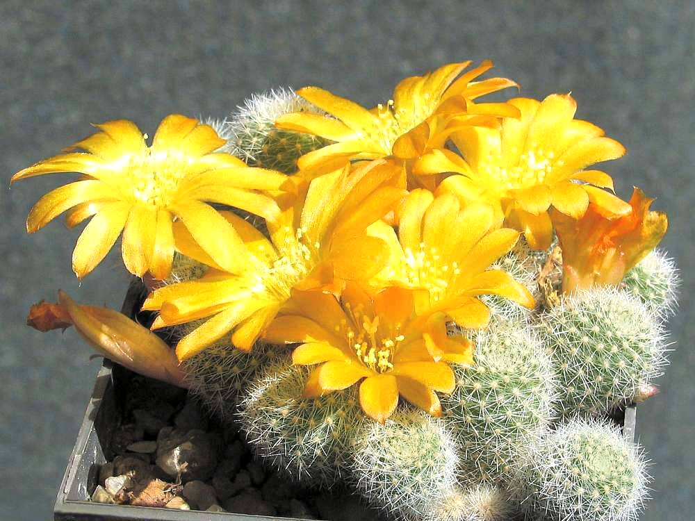 Rebutia fabrisii Rausch var. aureiflora Rausch - cultivated plant from own collection.